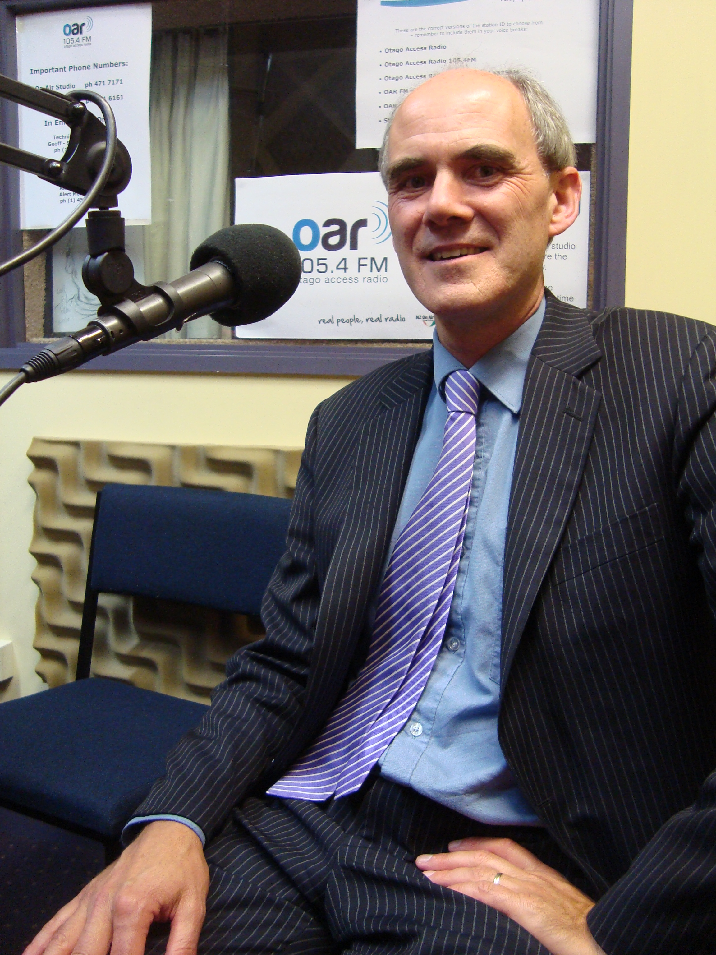 Professor Jonathan Boston in March 2012.